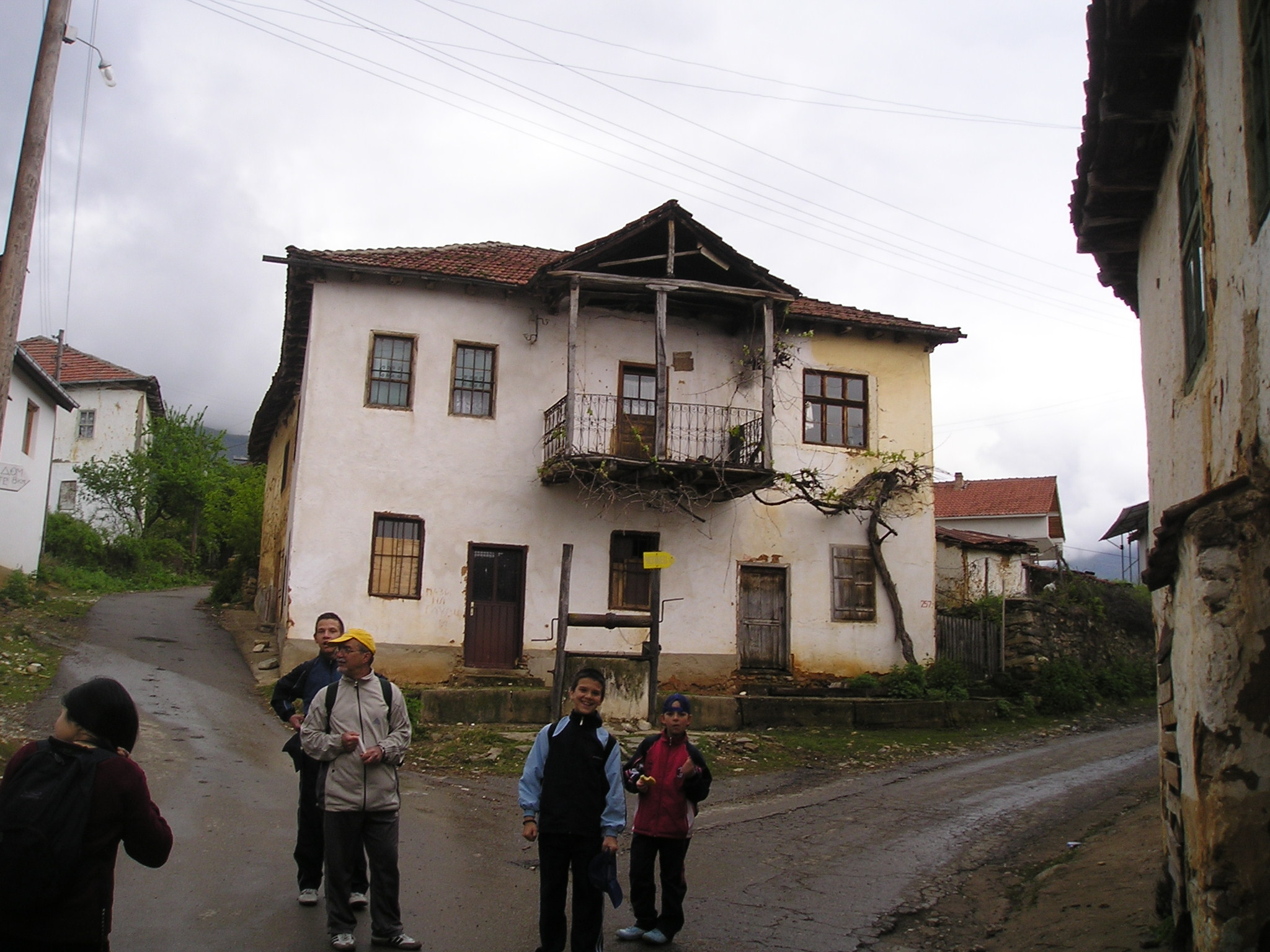 An old Macedonian house in the village of Bogomila, Macedonia